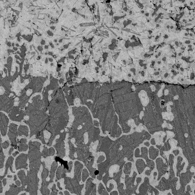 SEM (BSE) image of metall-oxide boundary. ABT-55, Michael D. Tolkachev (IPGG RAS)